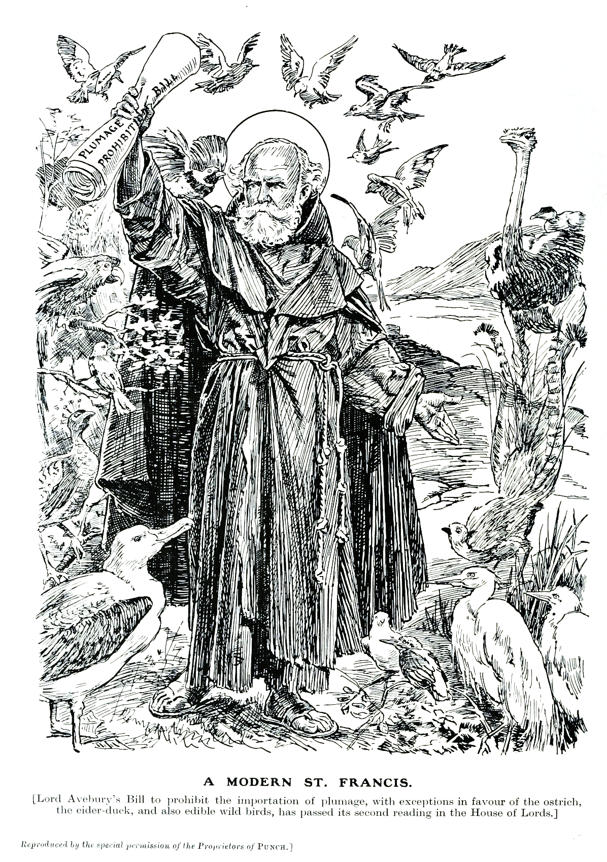 Punch cartoon on the plumage protection bill with Lord Avebury as a modern day St Francis